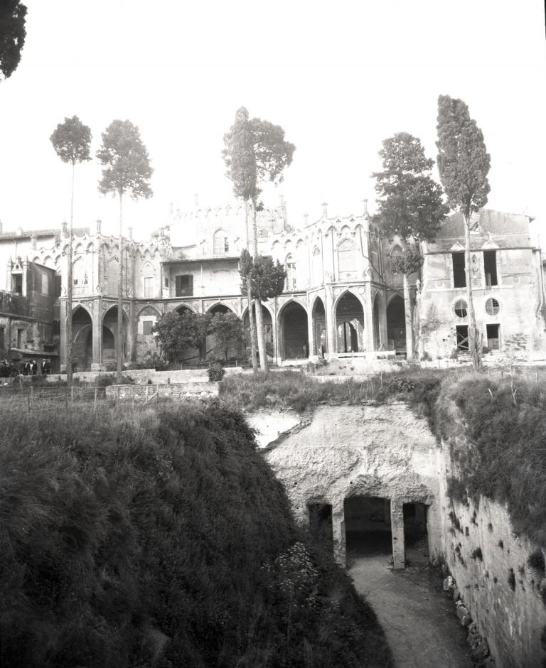 Palatine (Rome, Italy), Villa Mills on top of the Domus Augustana